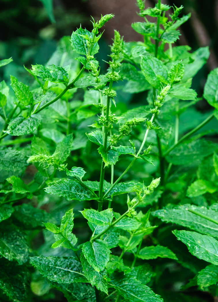 Mentha x pip.crispa just before flowering